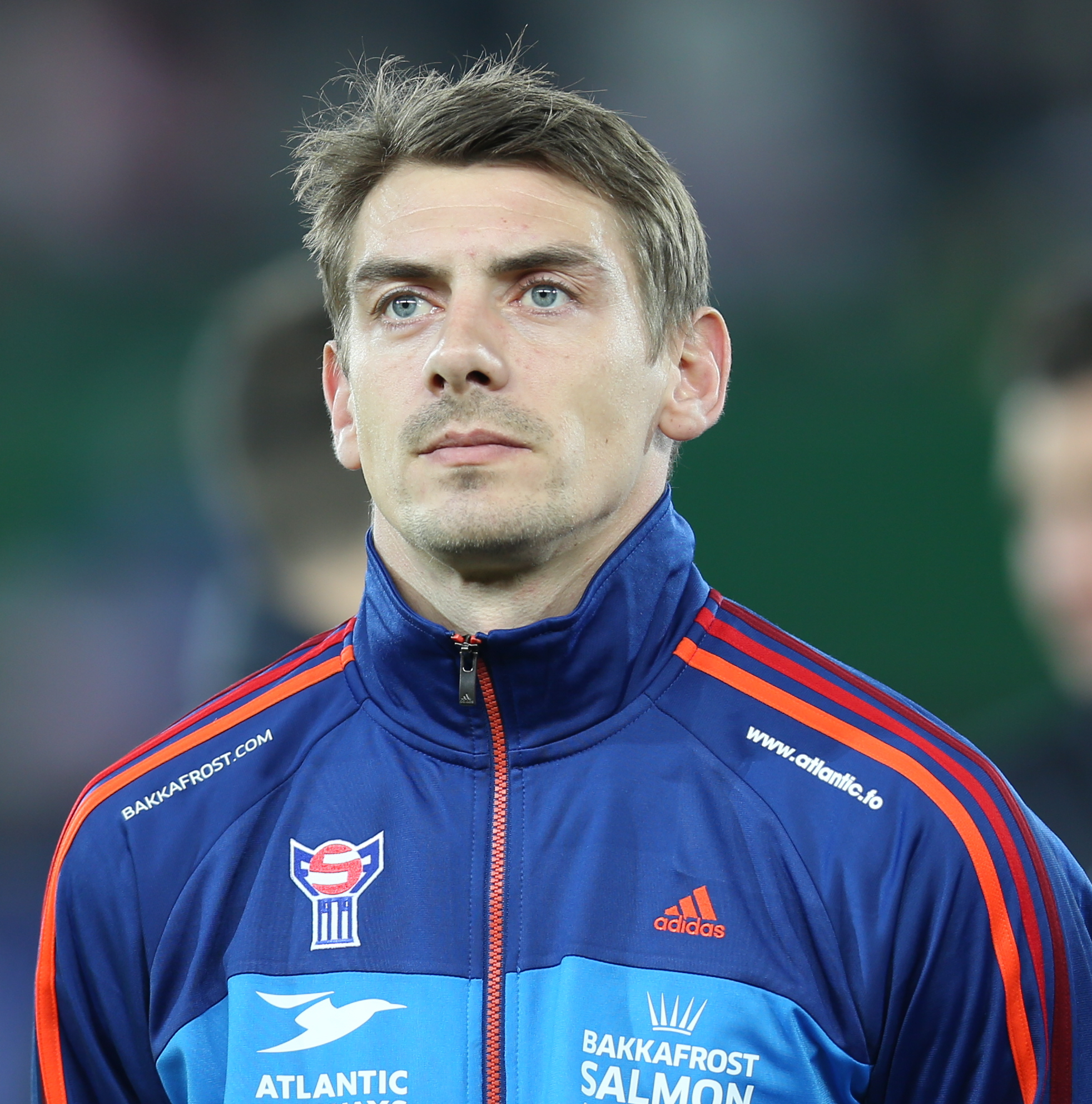 2014 FIFA World Cup qualification (UEFA), Group C: Austrian national football team vs. Faroer Islands national football team (6:0) at 22. March 2013 in the Ernst-Happel-Stadion in Vienna. Here: Fróði Benjaminsen, midfielder of the Faroe Islands. The making of this work was supported by Wikimedia Austria. For other files made with the support of Wikimedia Austria, please see the category Supported by Wikimedia Österreich.